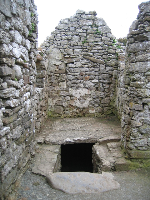 Side extension at Old Lligwy Chapel/Hen Capel Llugwy, near to Llanallgo, Isle of Anglesey/Sir Ynys Mon, Great Britain. This small extension and the burial vault beneath are 16th century, compared with the twelfth century chapel.